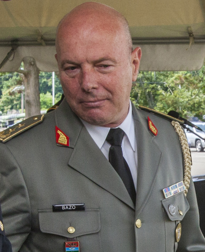 Maj. Gen. Jeronim Bazo, chief of general staff of Albanian armed forces, at the graduation ceremony of Albanian officers from the New Jersey Army National Guard OCS program through the State Partnership Program. (U.S. Air National Guard photo by Master Sgt. Mark C. Olsen/Released).